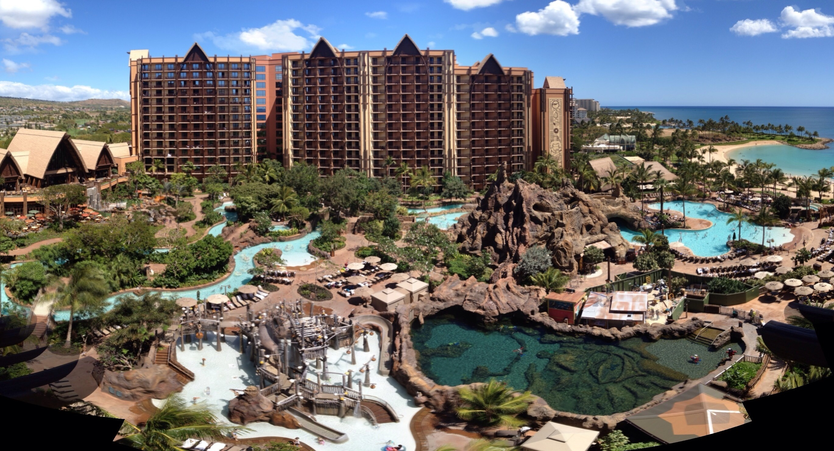 Aulani, Disney Resort & Spa, a beachside hotel, resort and vacation destination at the Ko Olina Resort & Marina in Kapolei on the Hawaiian island of Oahu